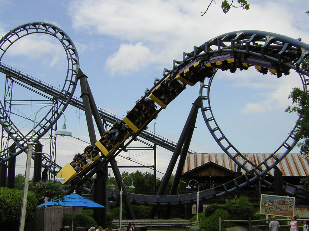 Carolina Cyclone roller coaster at Paramount's Carowinds.